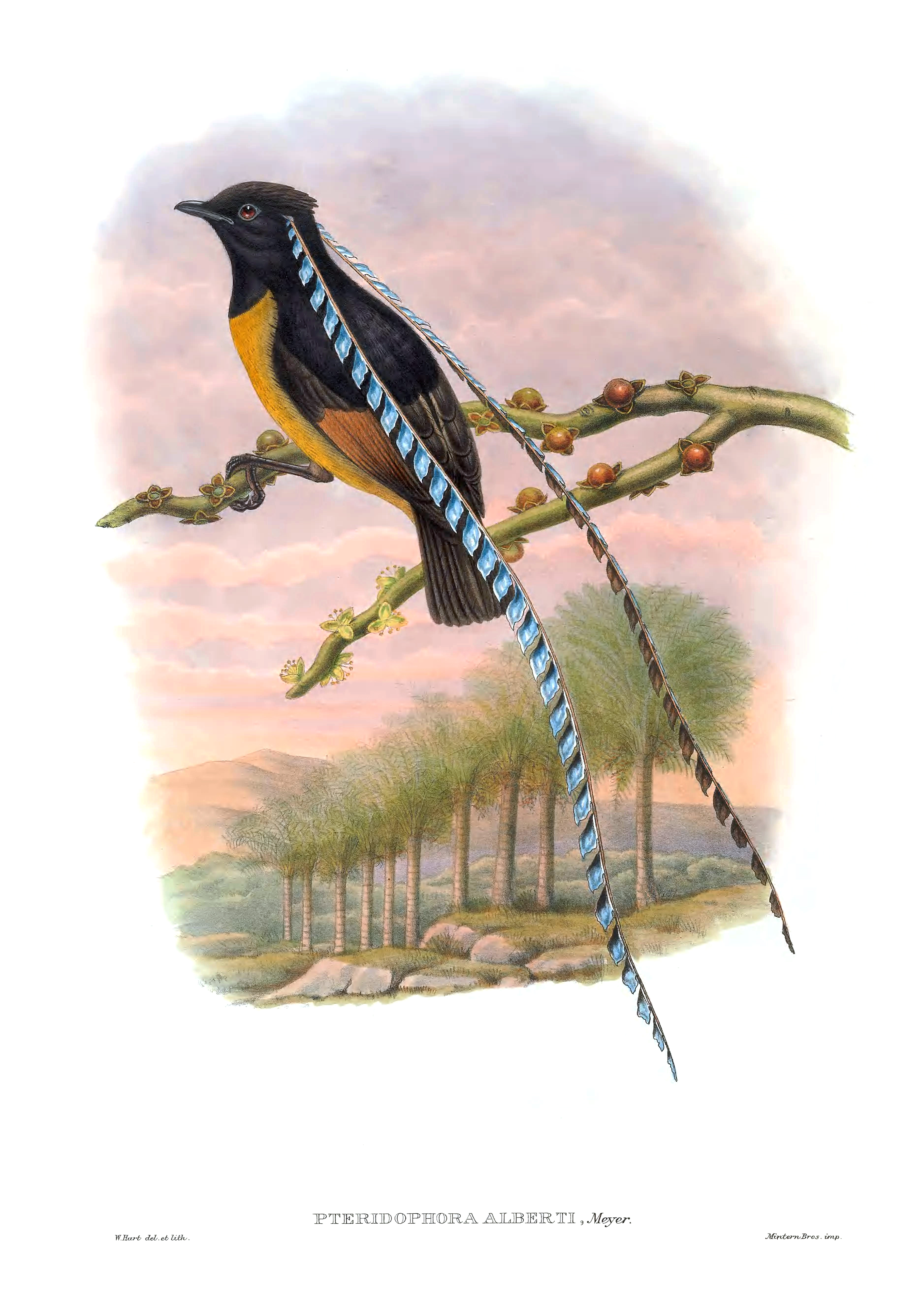 Pteridophora alberti